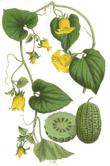 Thladiantha dubia